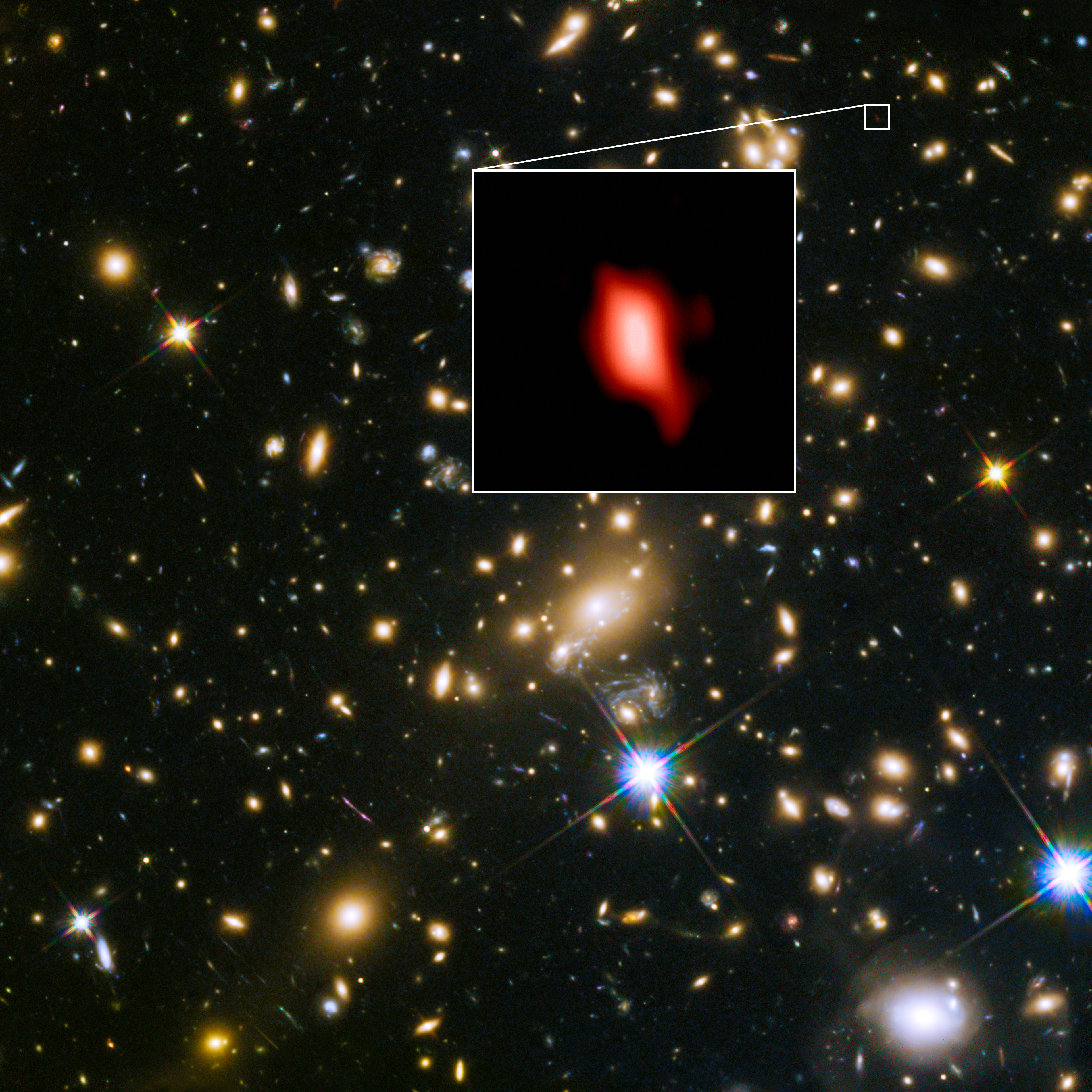 This image shows the galaxy cluster MACS J1149.5+2223 taken with the NASA/ESA Hubble Space Telescope; the inset image is the very distant galaxy MACS1149-JD1, seen as it was 13.3 billion years ago and observed with ALMA. Here, the oxygen distribution detected with ALMA is depicted in red.